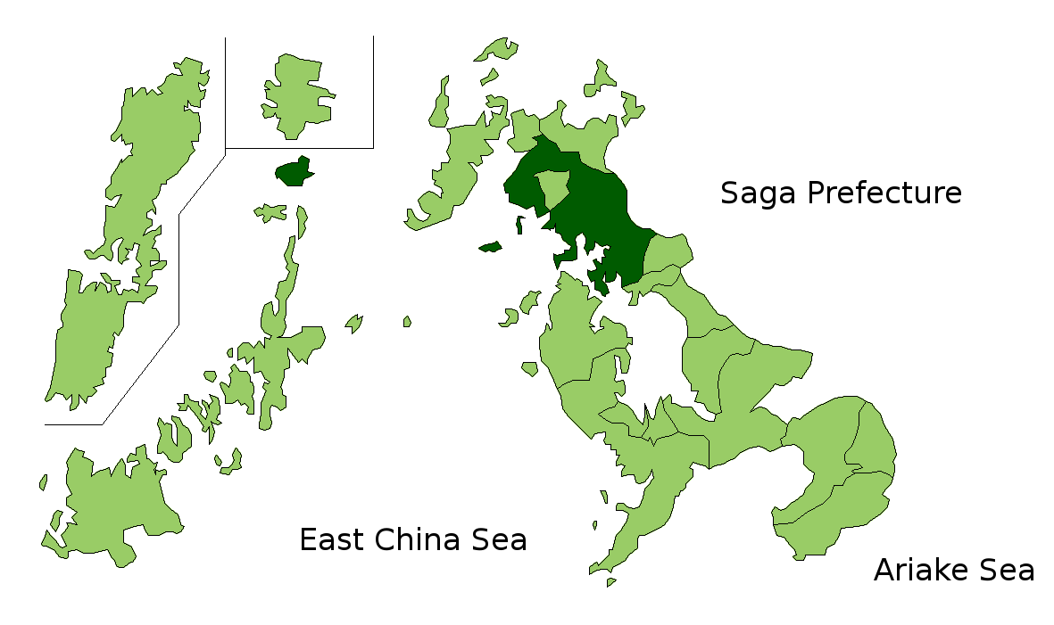 The location of Sasebo in Nagasaki Prefectuur, Japan